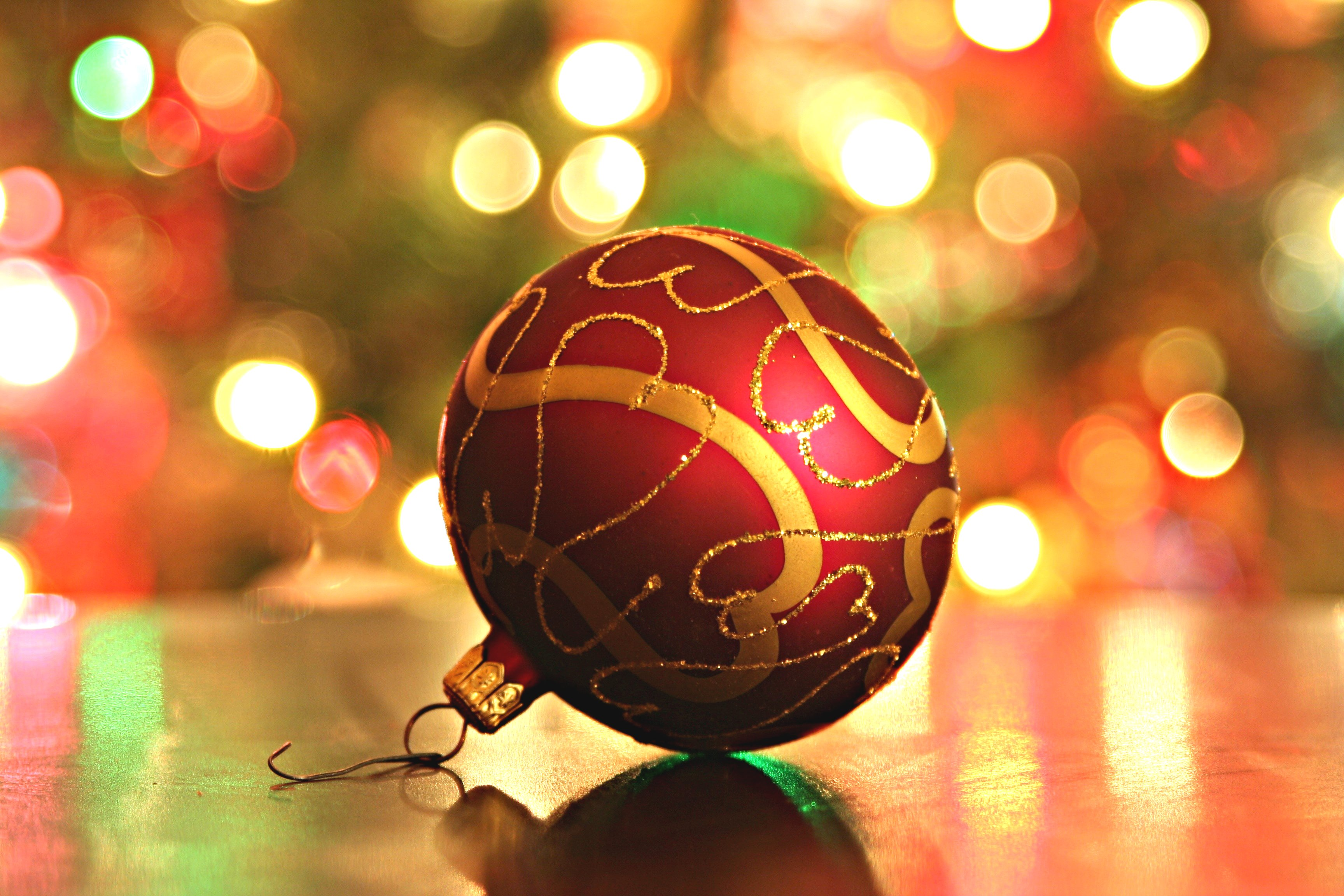 Some holiday cheer from sunny California.